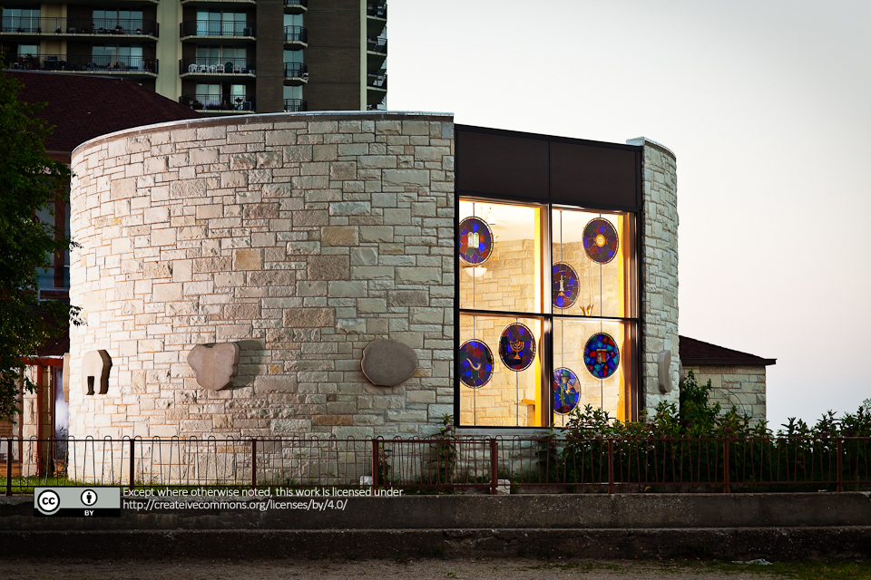 Emanuel Congregation chapel exterior.